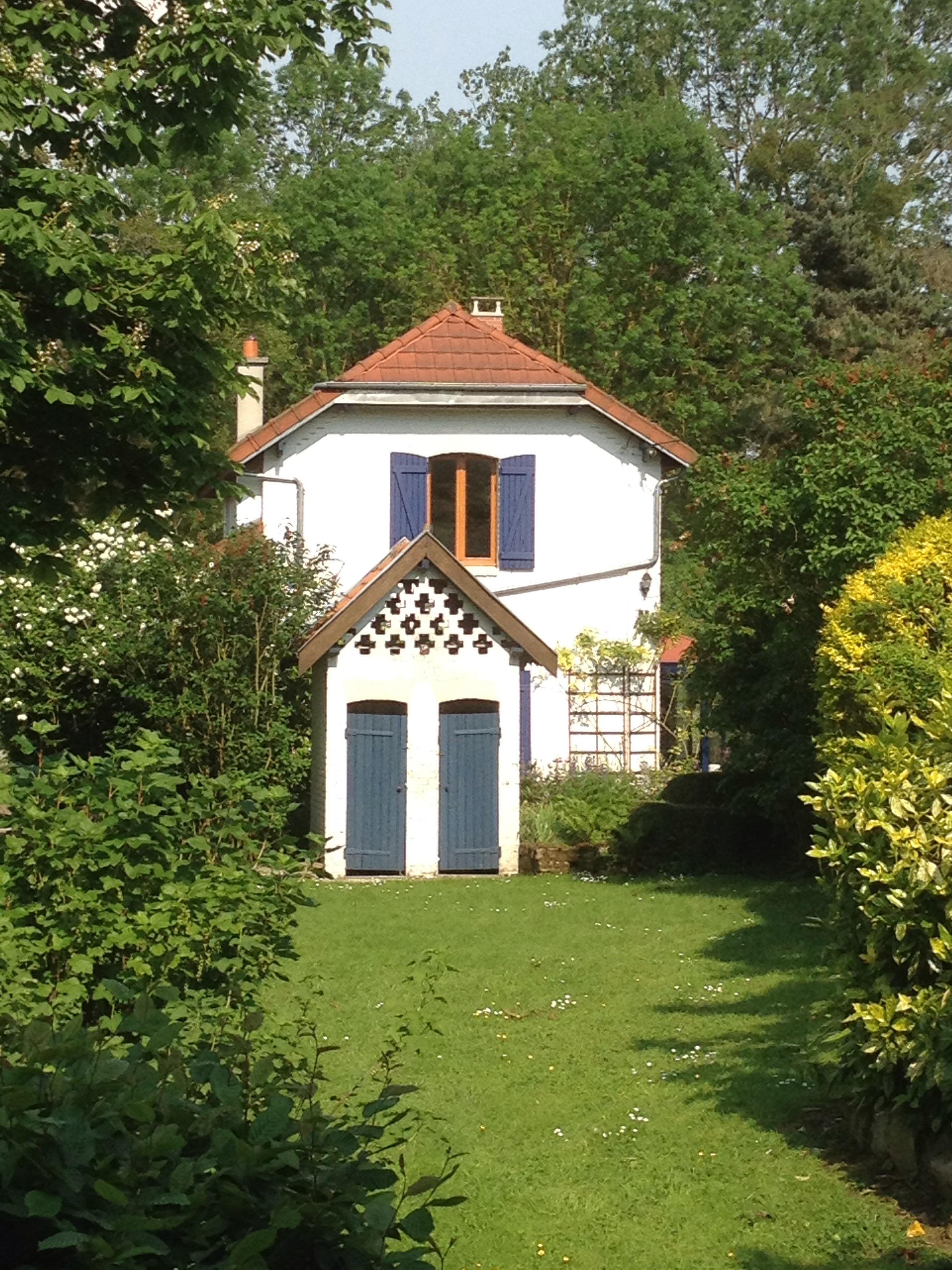 Amigny-Rouy (Aisne, France) old tramway station.